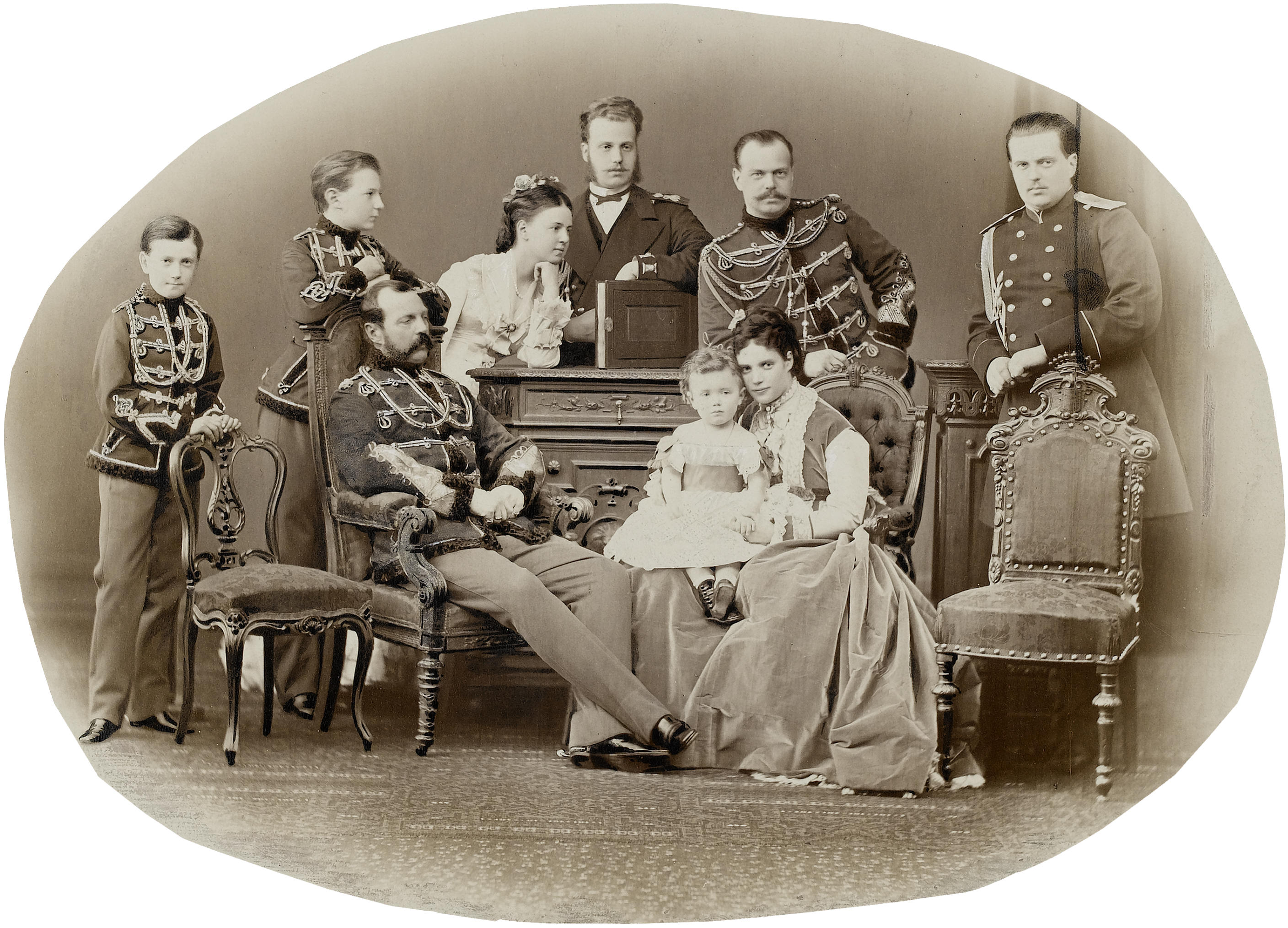 Family of Emperor Alexander II of Russia. The photo shows the Emperor Alexander II with his daughter in law Maria Feodorovna and his grandson Nicholas Alexandrovich. In the back row stand the Emperor's children. Grand Duke Paul Alexandrovich, Grand Duke Sergei Alexandrovich, Grand Duchess Maria Alexandrovna, Grand Duke Alexey Alexandrovich, Tsarevich Alexander Alexandrovich and Grand Duke Vladimir Alexandrovich.